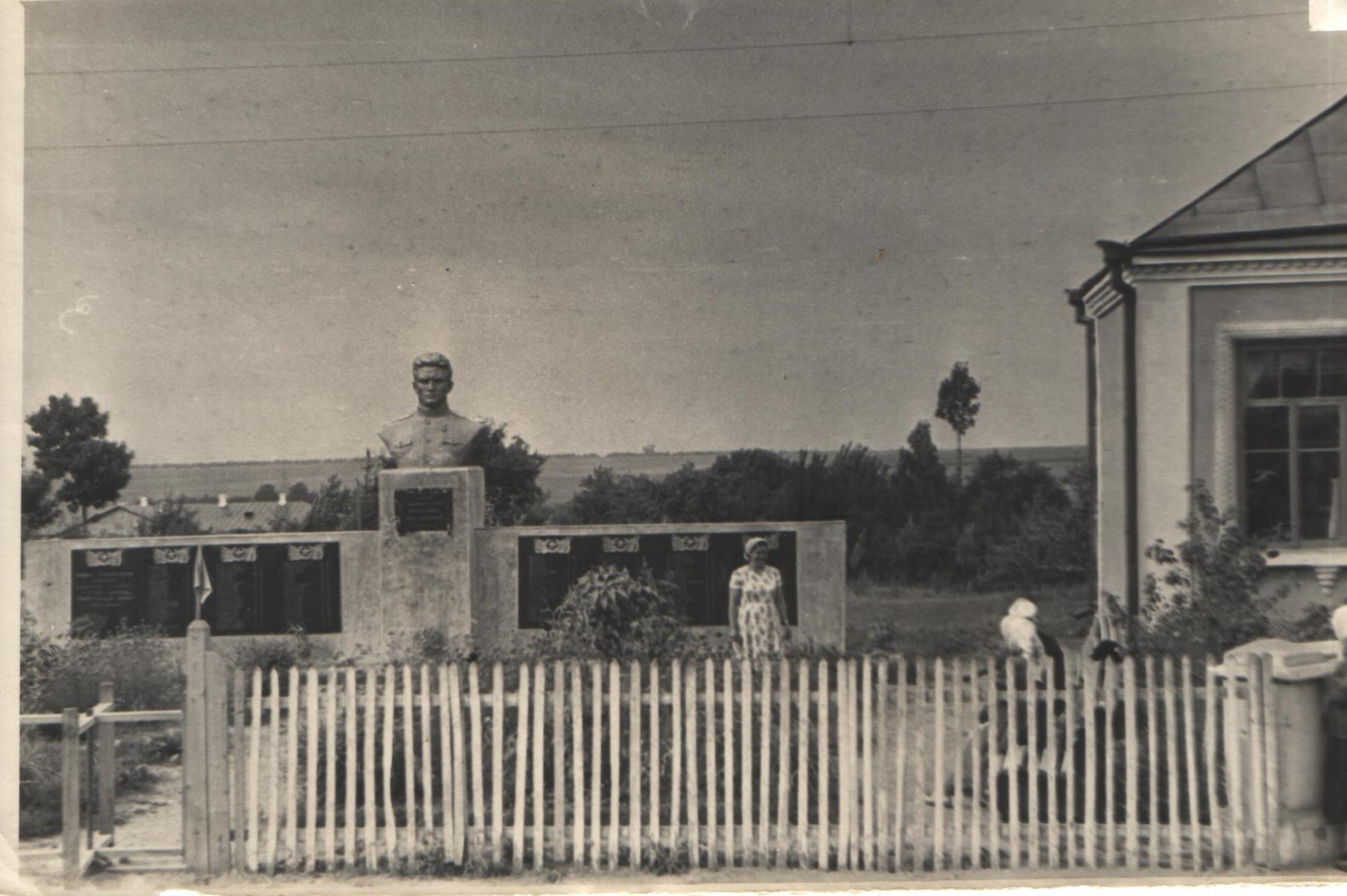 Погруддя Миколаєнко П.І.